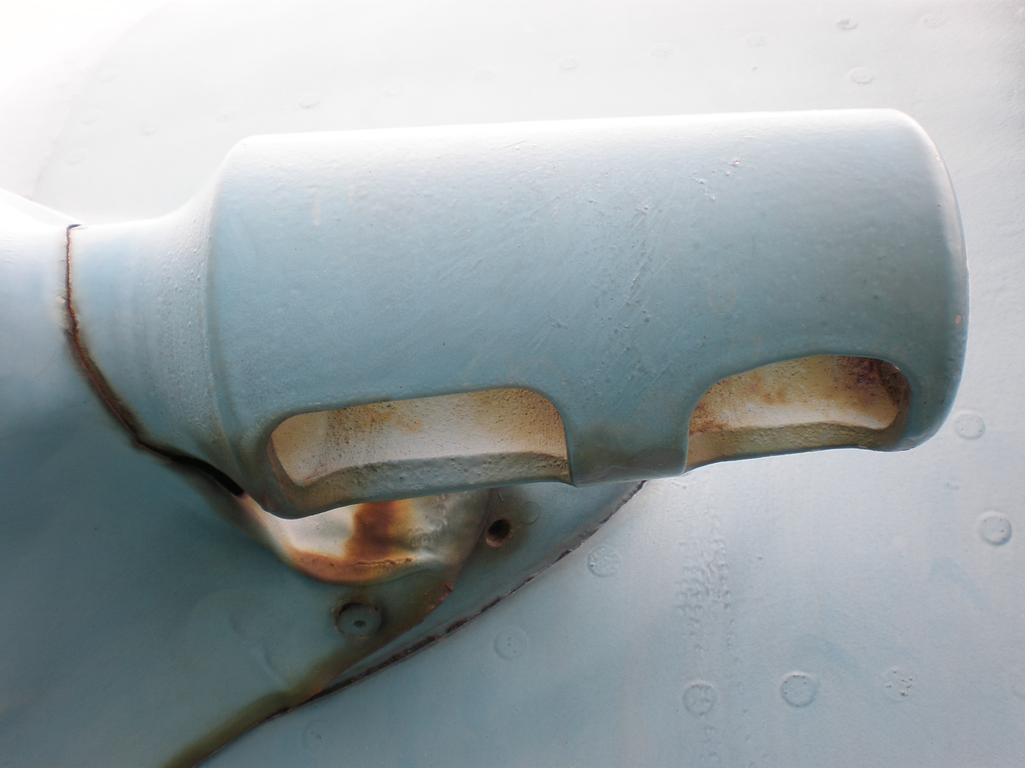 One of the Norinco Type 23-2K 23 mm cannons of a Nanchang Q-5 on display on the flight deck of the aircraft carrier Minsk, located at the Minsk World theme park in Shenzhen, PRC.